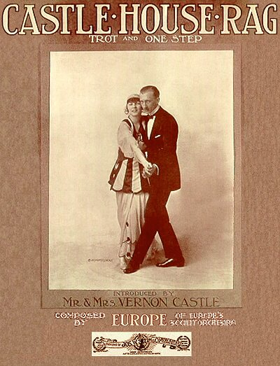 James Reese Europe, Castle House Rag, 1914. With a photograph of the couple Vernon and Irene Castle